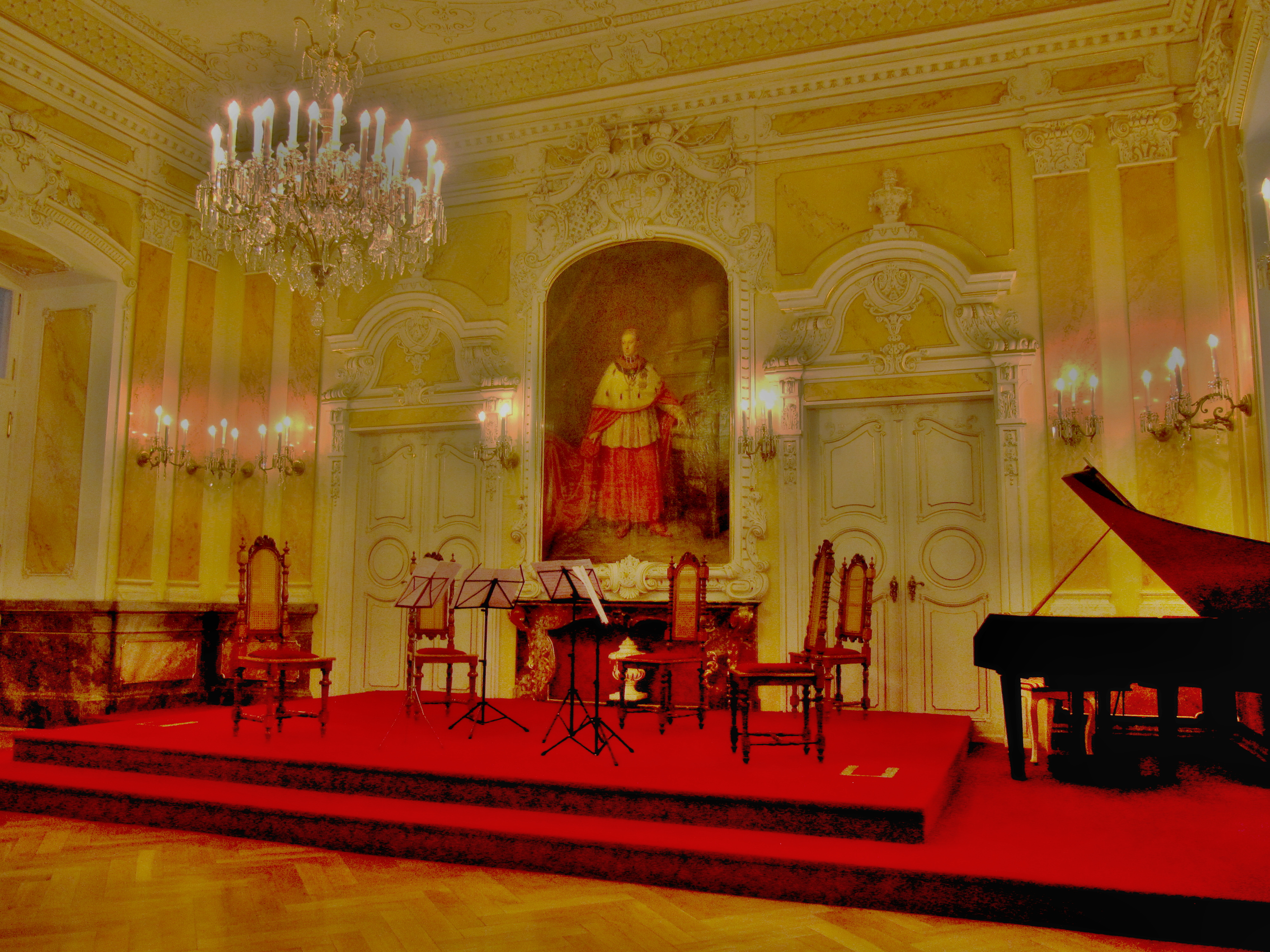 Olomouc, Czech Republic. Archbishop's Palace.